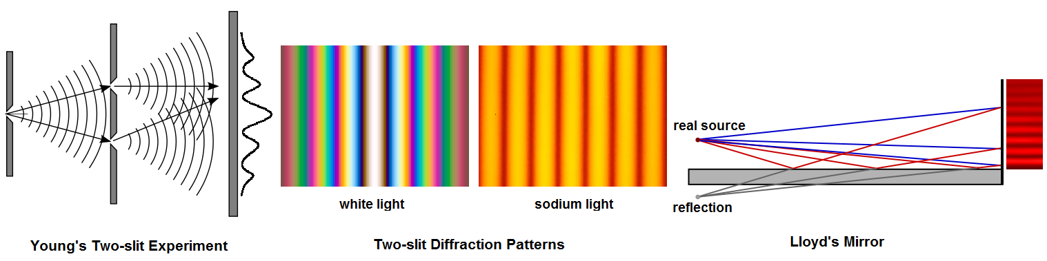 A drawing of Young's two-slit experiment is on the left. Diffraction patterns from white light and from sodium D light are in the middle. A drawing of Lloyd's mirror is to the right.